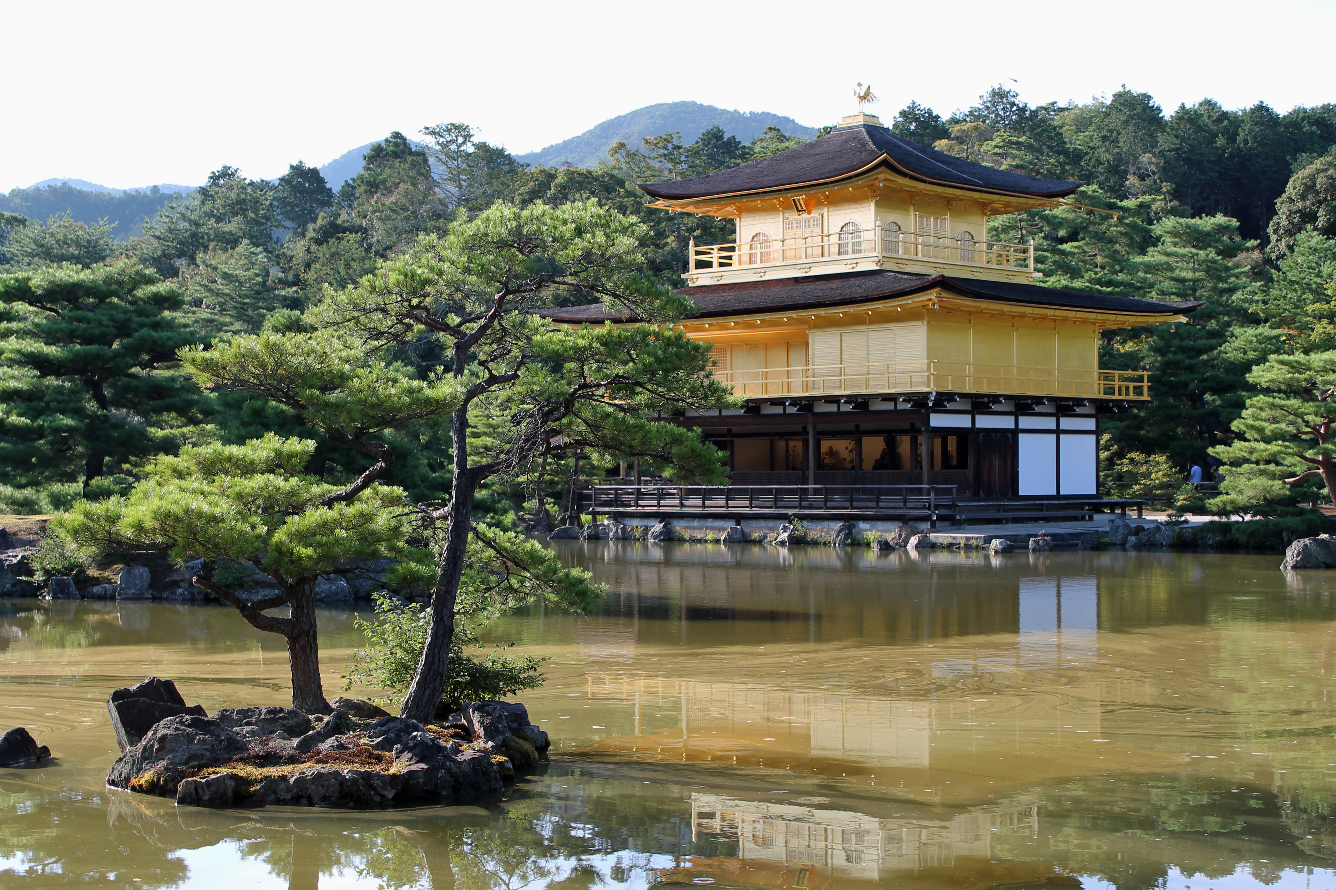 Kinkaku-ji